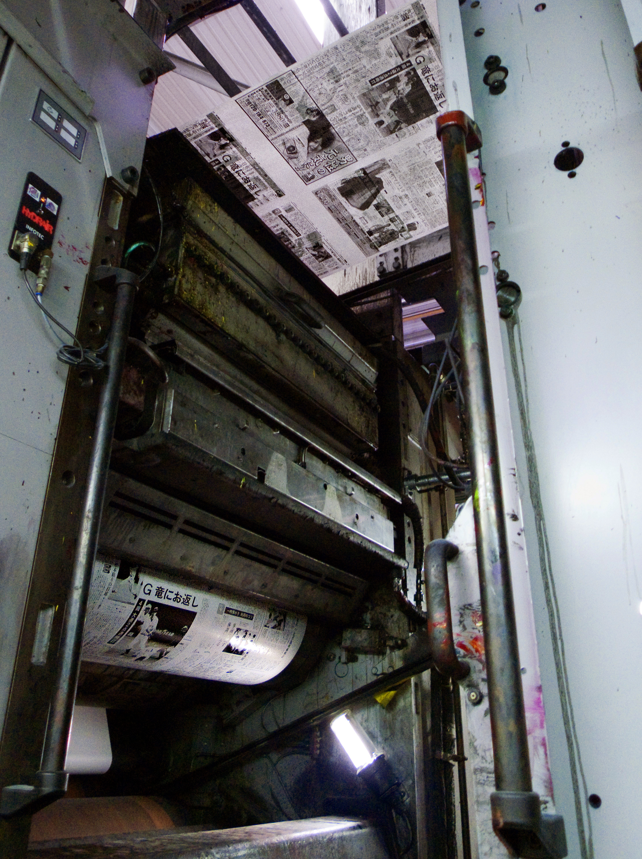 A web-fed, offset printing press in use to print a newspaper. The plate cylinder, visible at bottom with ink, contains the image in positive form and transfers it to an offset cylinder that then deposits the ink on the page.